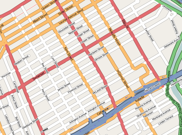 This map may be incomplete, and may contain errors. Don't rely solely on it for navigation.